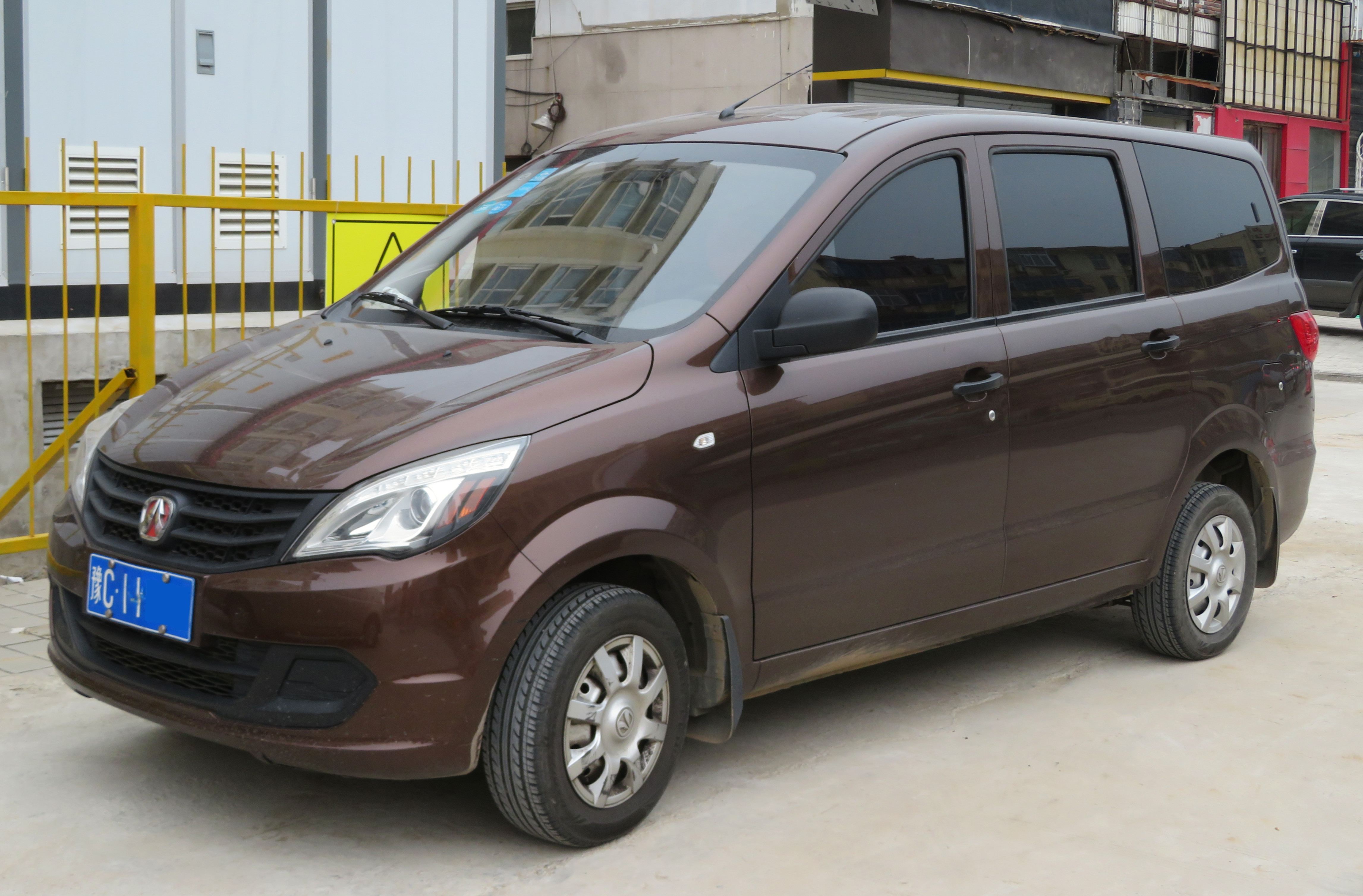 A BAIC Weiwang M20A 1.2L VVT photographed in Luoyang, Henan province, China